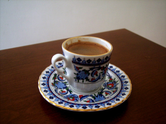 A cup of Turkish coffee.